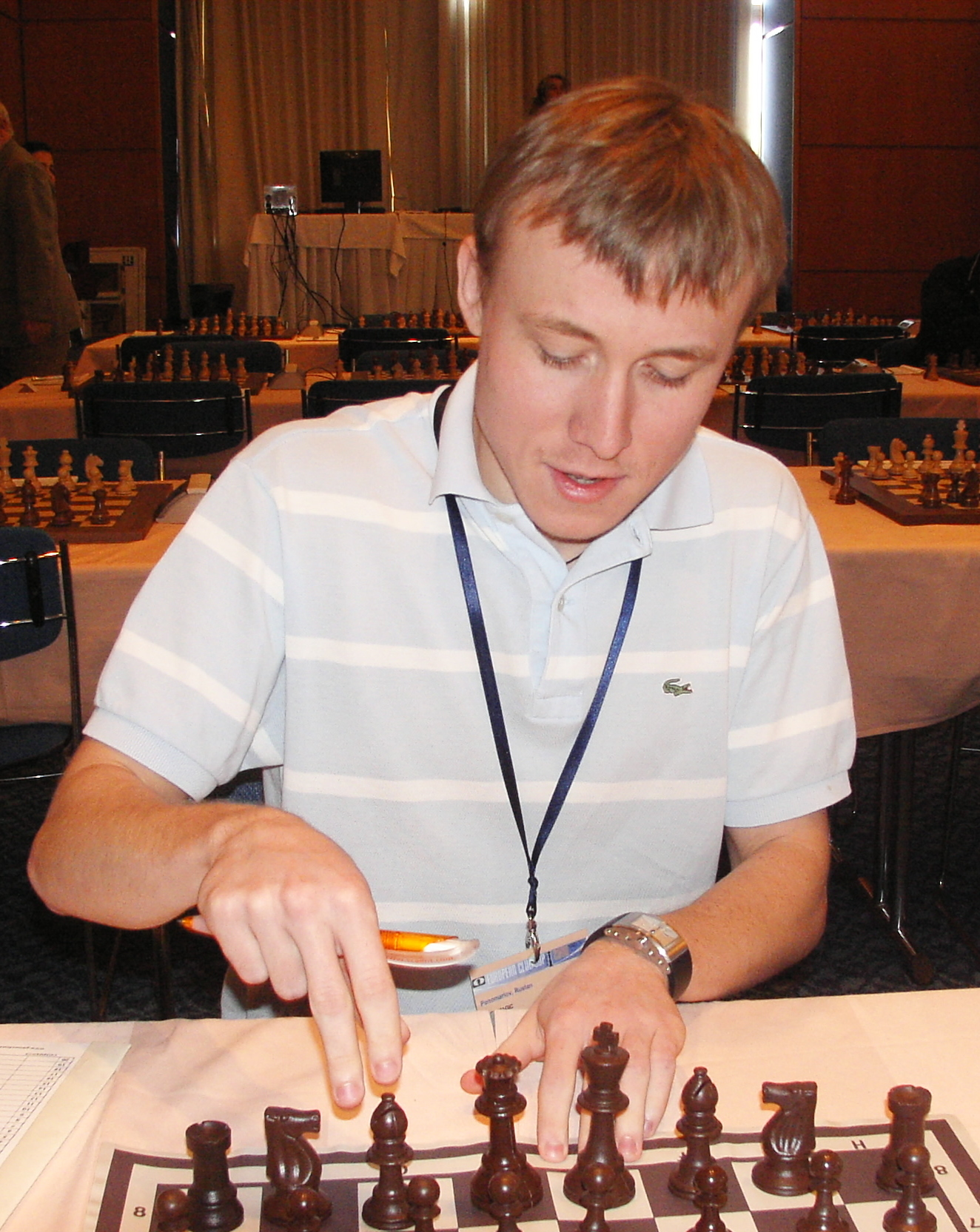 GM Ruslan Ponomariov, 24th European Club Cup 2008 Halkidiki, Greece